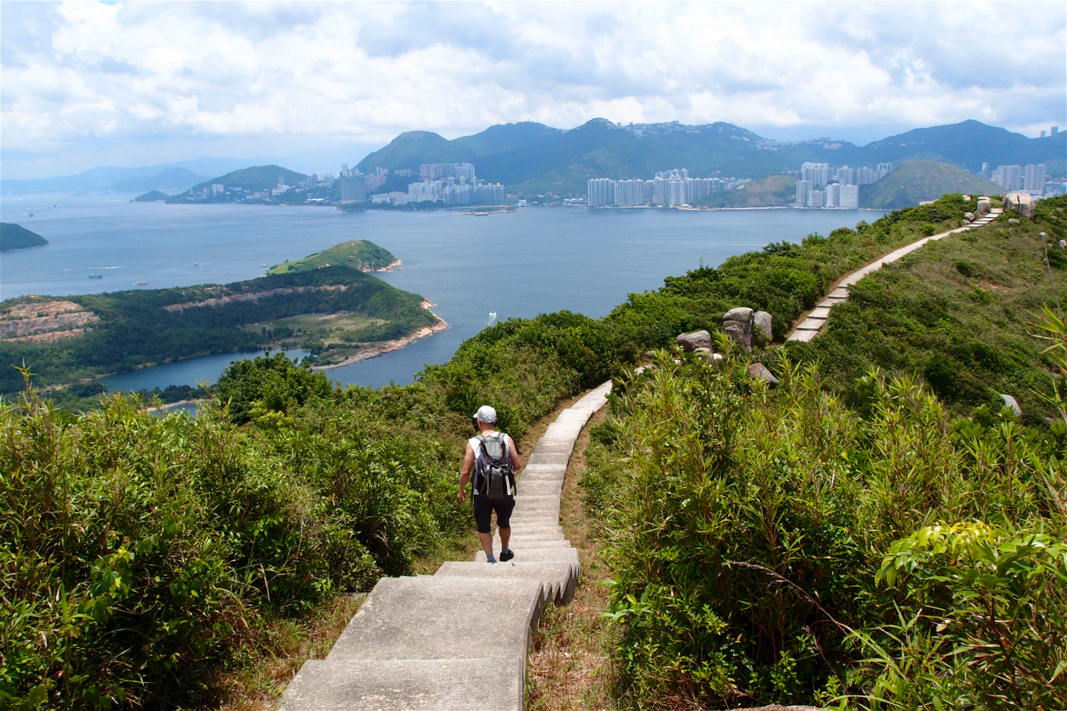 菱角山，面向港島南部